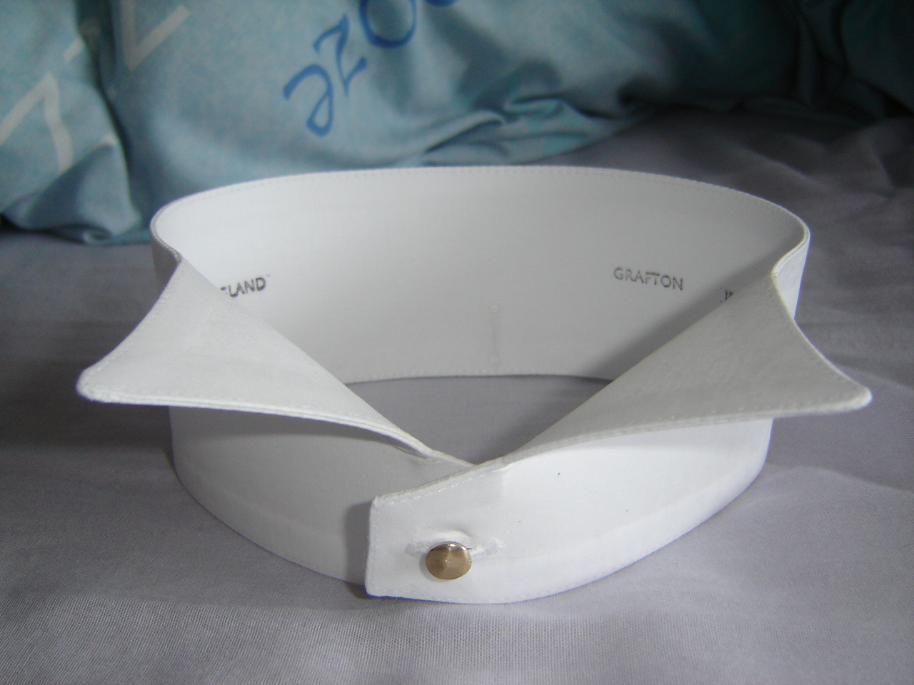 A Grafton starched-stiff detachable wing collar.